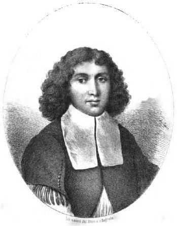 Jerolim Kavanji